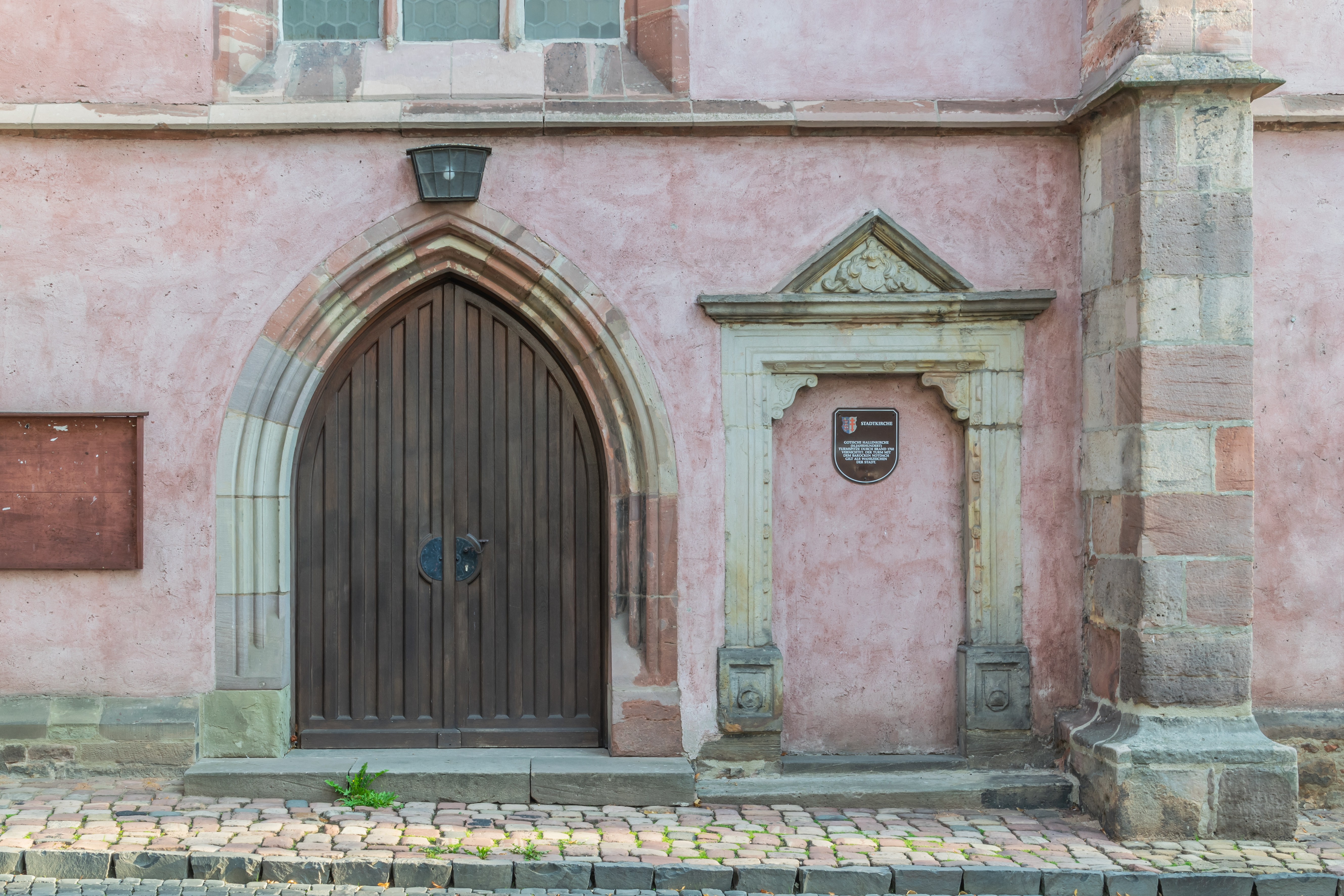 Portal of the protestant city church in Bad Hersfeld, Hesse, Germany